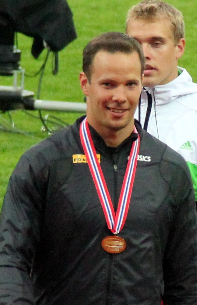 Tero Pitkämäki recieves the Bislett-medal at the Bislett Games 2011